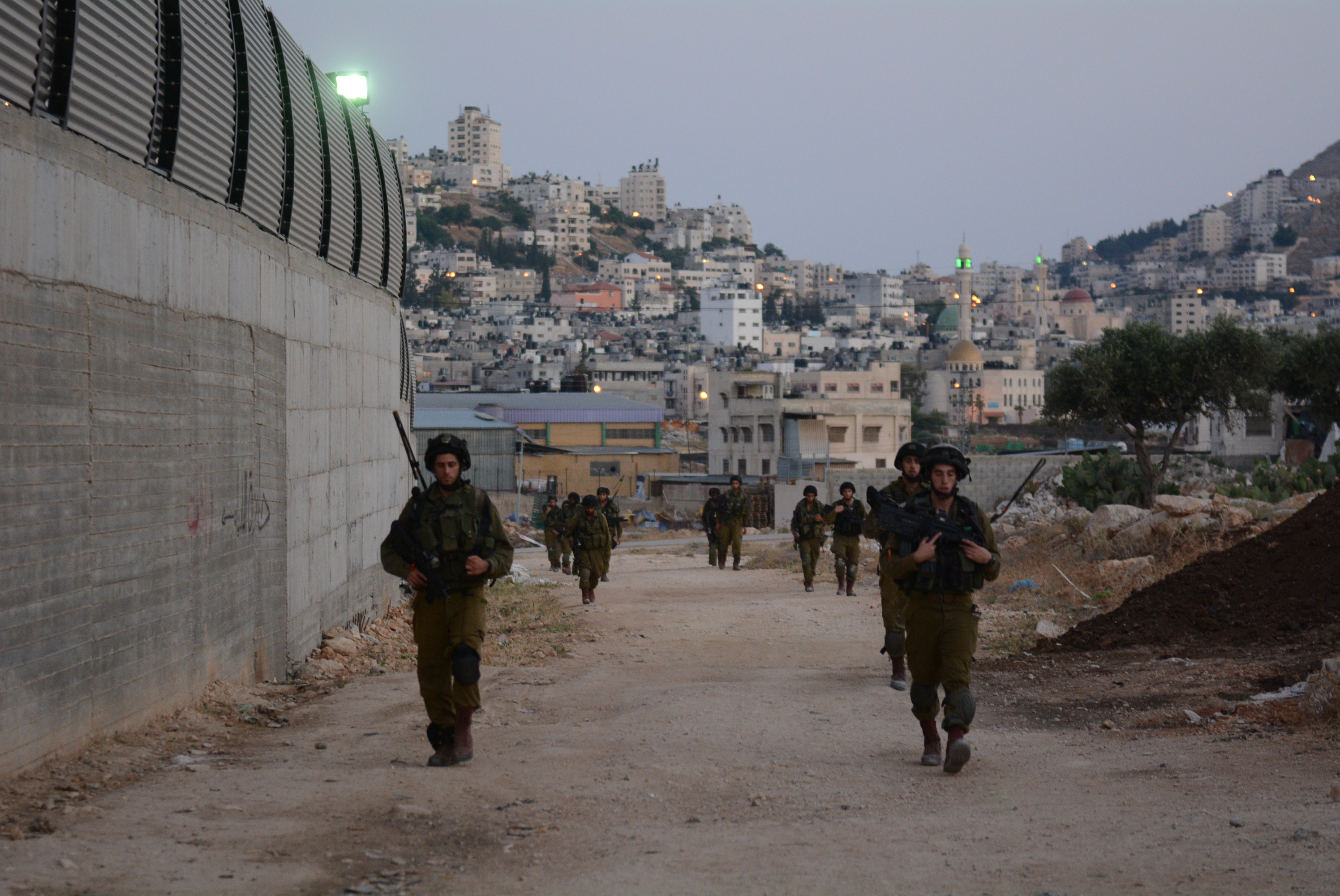 On the night of June 12, three Israeli teenagers suddenly went missing in Judea and Samaria. Our forces are relentlessly searching for them, operating under the presumption that they were kidnapped by Palestinian terrorists. These exclusive photos show the efforts of the IDF soldiers in the Hebron area. The names of the abducted Israelis are Eyal Yifrach (age 19), Gilad Shaar (age 16), and Naftali Frenkel (age 16). Our mission is to bring them home as quickly as possible. We will do everything to #BringBackOurBoys For more updates: The Israel Defense Forces Facebook The Israel Defense Forces blog Follow us on Twitter